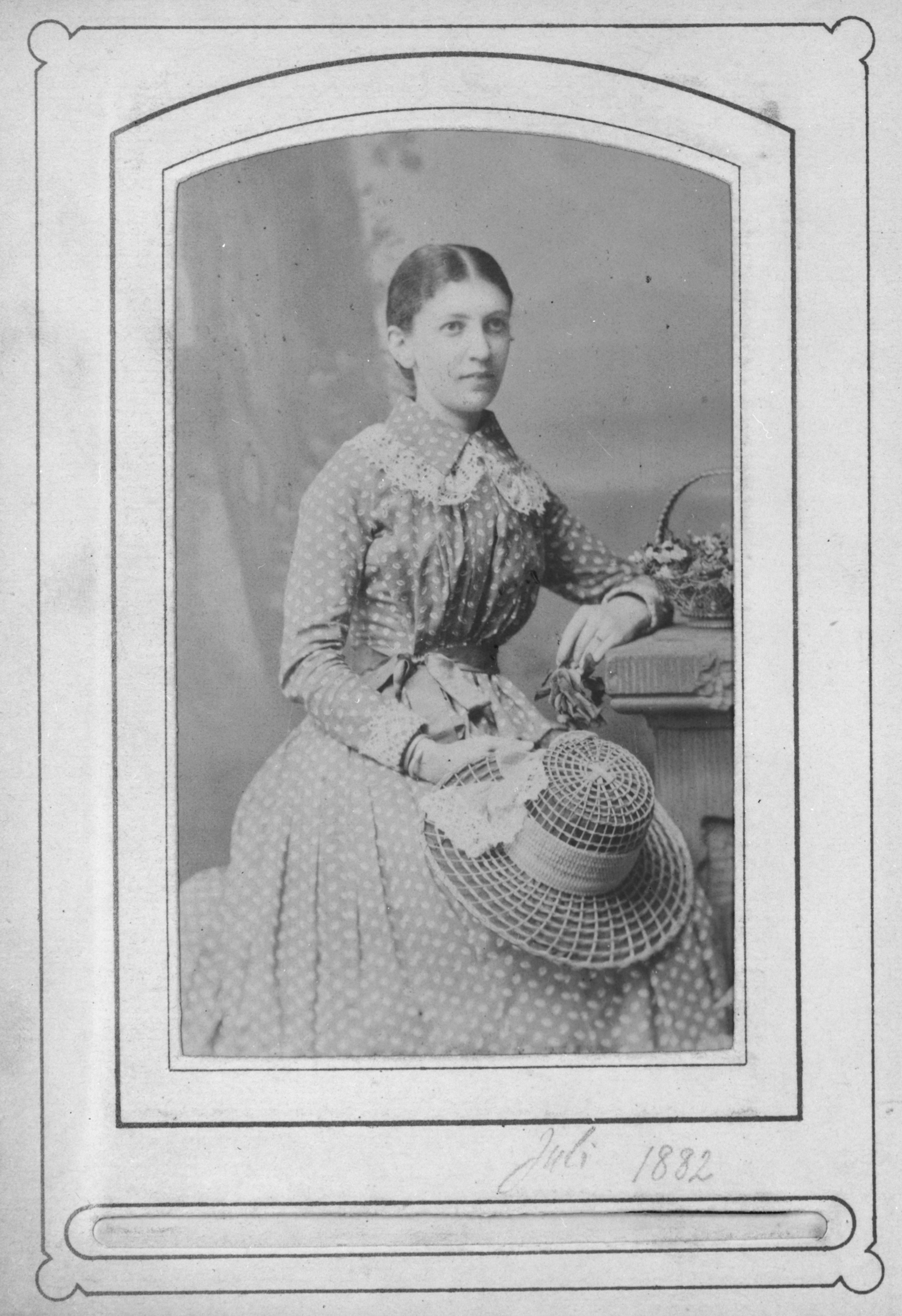 Martha Bernays